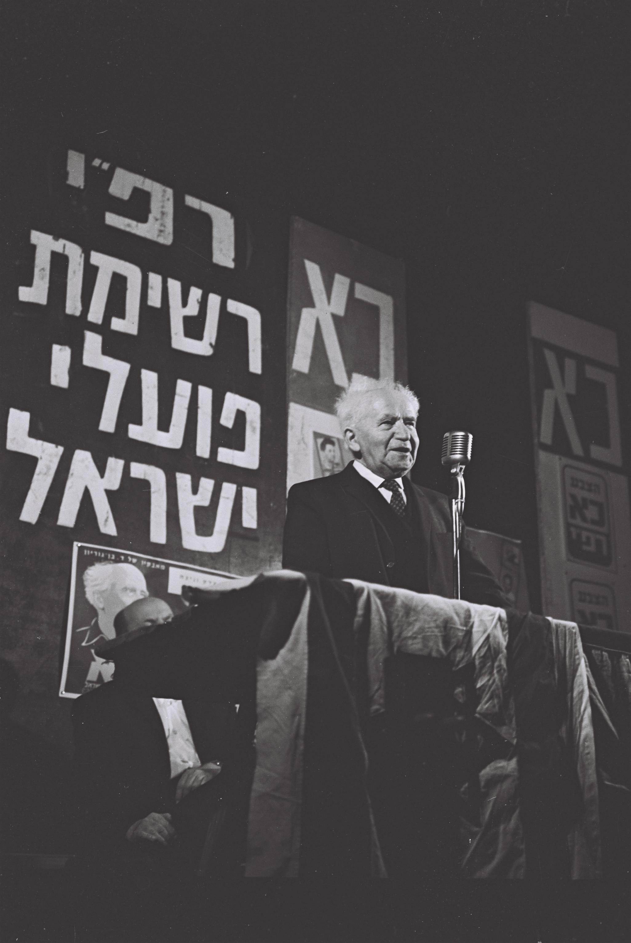 DAVID BEN GURION ADDRESSING AN ELECTION MEETING OFTHE "RAFI" PARTY IN HADAR-YOSEF NEAR TEL AVIV.